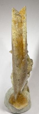 Herderite Locality: Linópolis, Divino das Laranjeiras, Doce valley, Minas Gerais, Southeast Region, Brazil (Locality at ) Size: miniature, 6 x 4.6 x 1.2 cm Herderite A VERY sharp, unusually bladed herderite crystal that is translucent around the edges and has a very sharp, narrowed, twin plane as you see in teh second photo. Interesting crystallography for the species, especially from this locale known more for short, fat herderites.